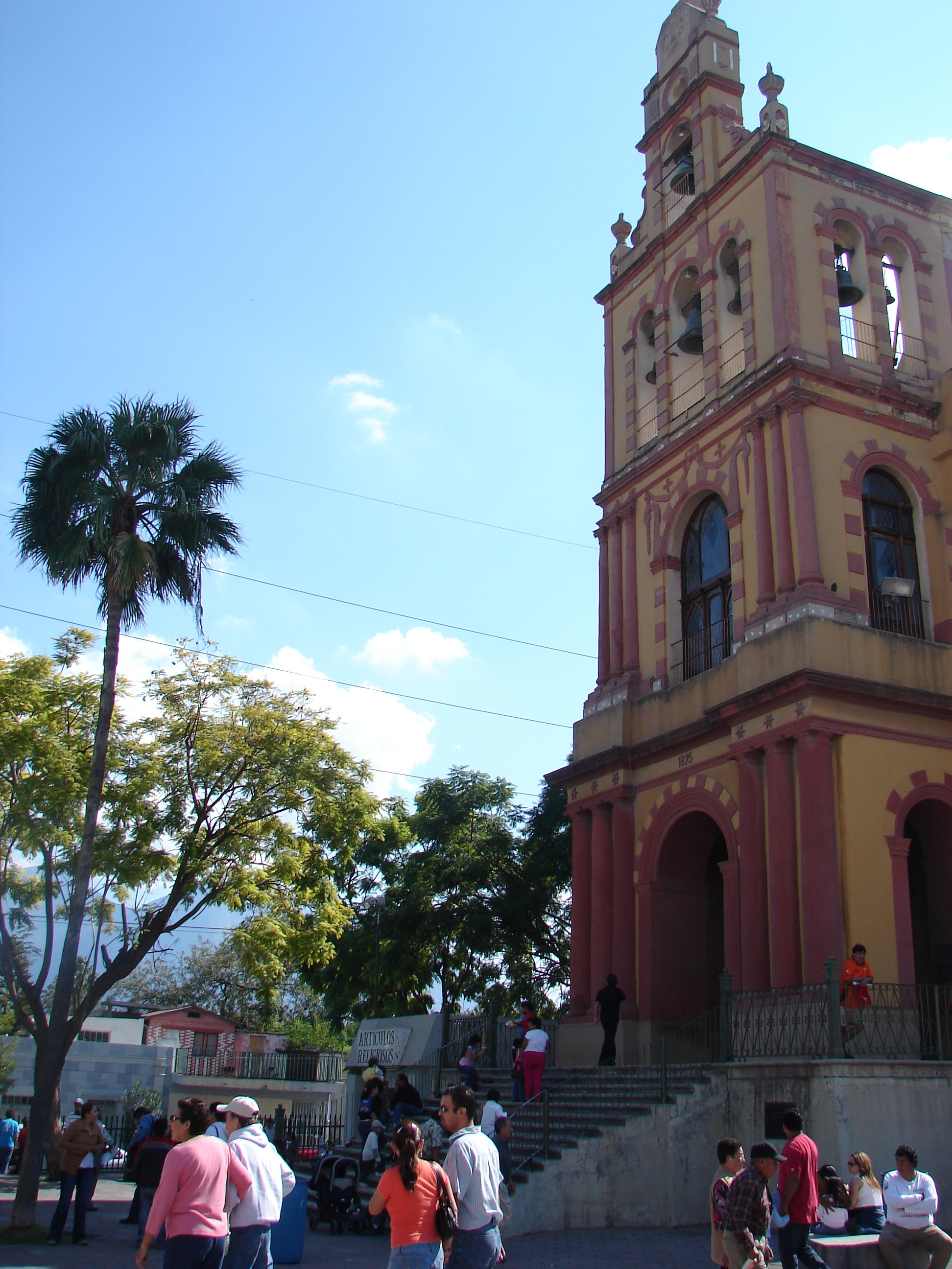 Older Basilica de Guadalupe/Basilica of Our Lady of Guadalupe, in Monterrey, Nuevo Leon. It stands about 50 meters from the newer basilica.